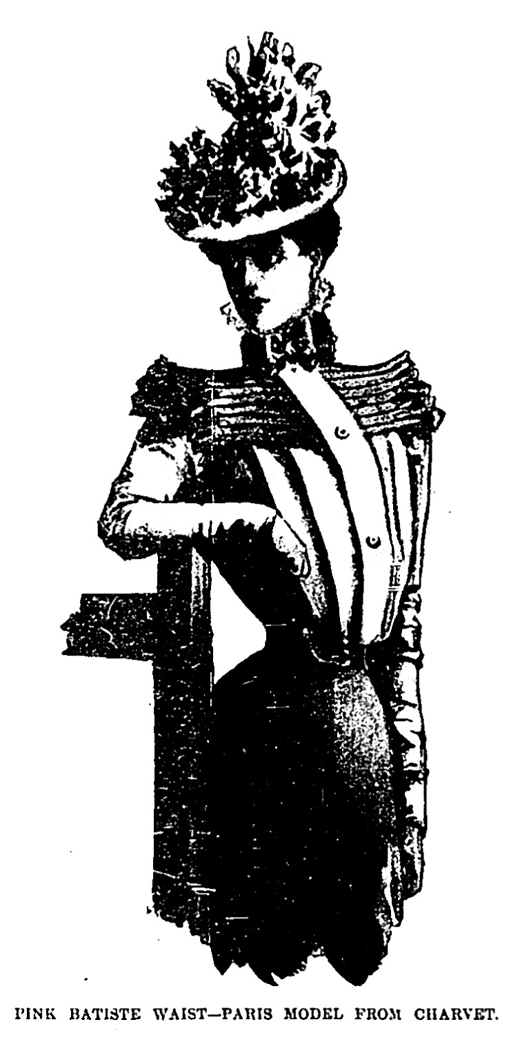 Shirt-waist from Charvet in fine batiste